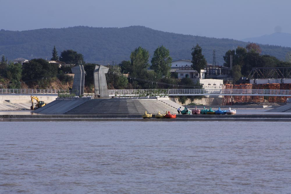 mellal park in sari